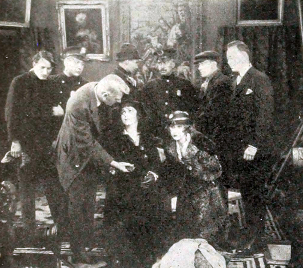 "The Haunted Canvas," Episode 12 of The Iron Claw (1916). Illustration of a review in The Moving Picture World.